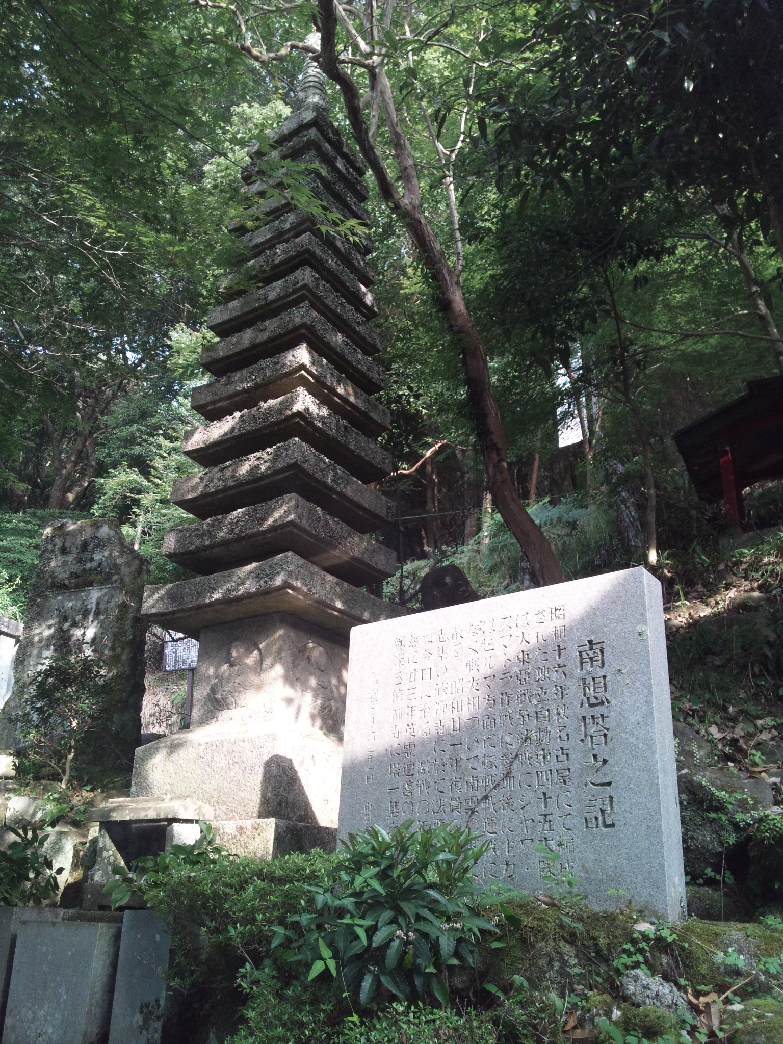 Photo taken at shuzenji,Izu-city,Shizuoka Pref. Japan on 21st July 2013